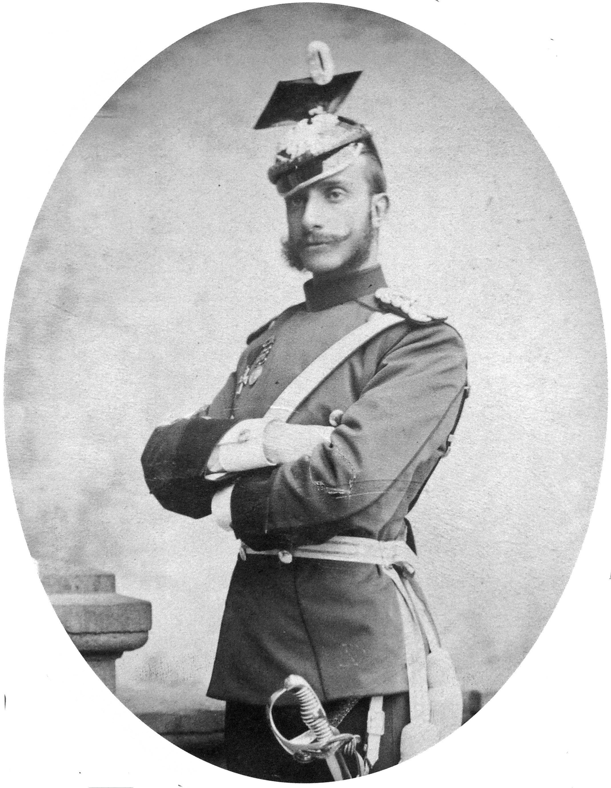 King Alphonso XII of Spain